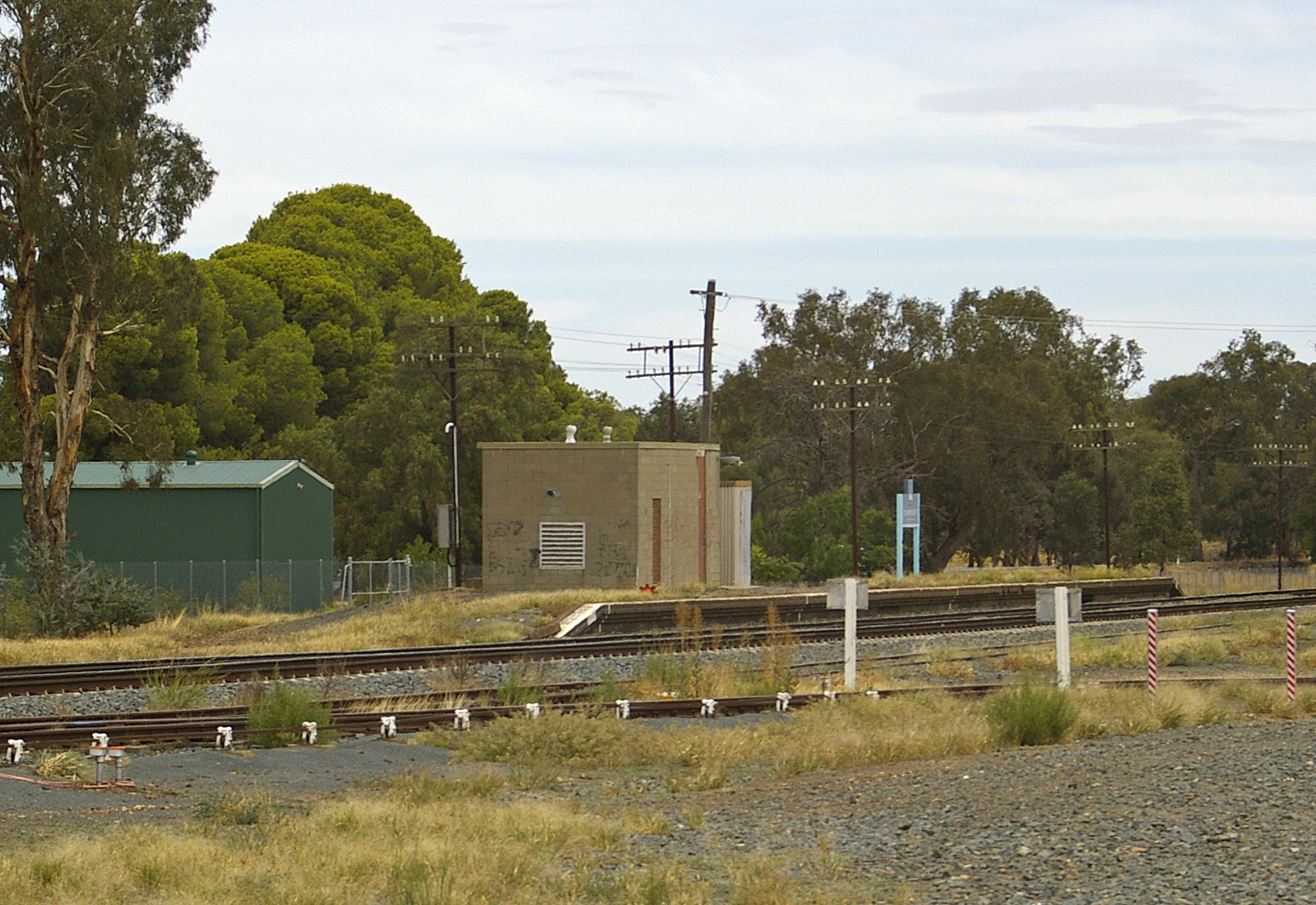 Uranquinty platform which was a stop for the Sydney to Melbourne CountryLink XPT on the Main Southern railway line.